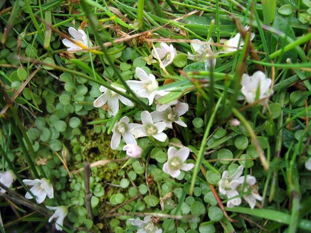 Bog Pimpernel (Anagallis tenella) A diminutive member of the Primula family common in the bogs on the moorland